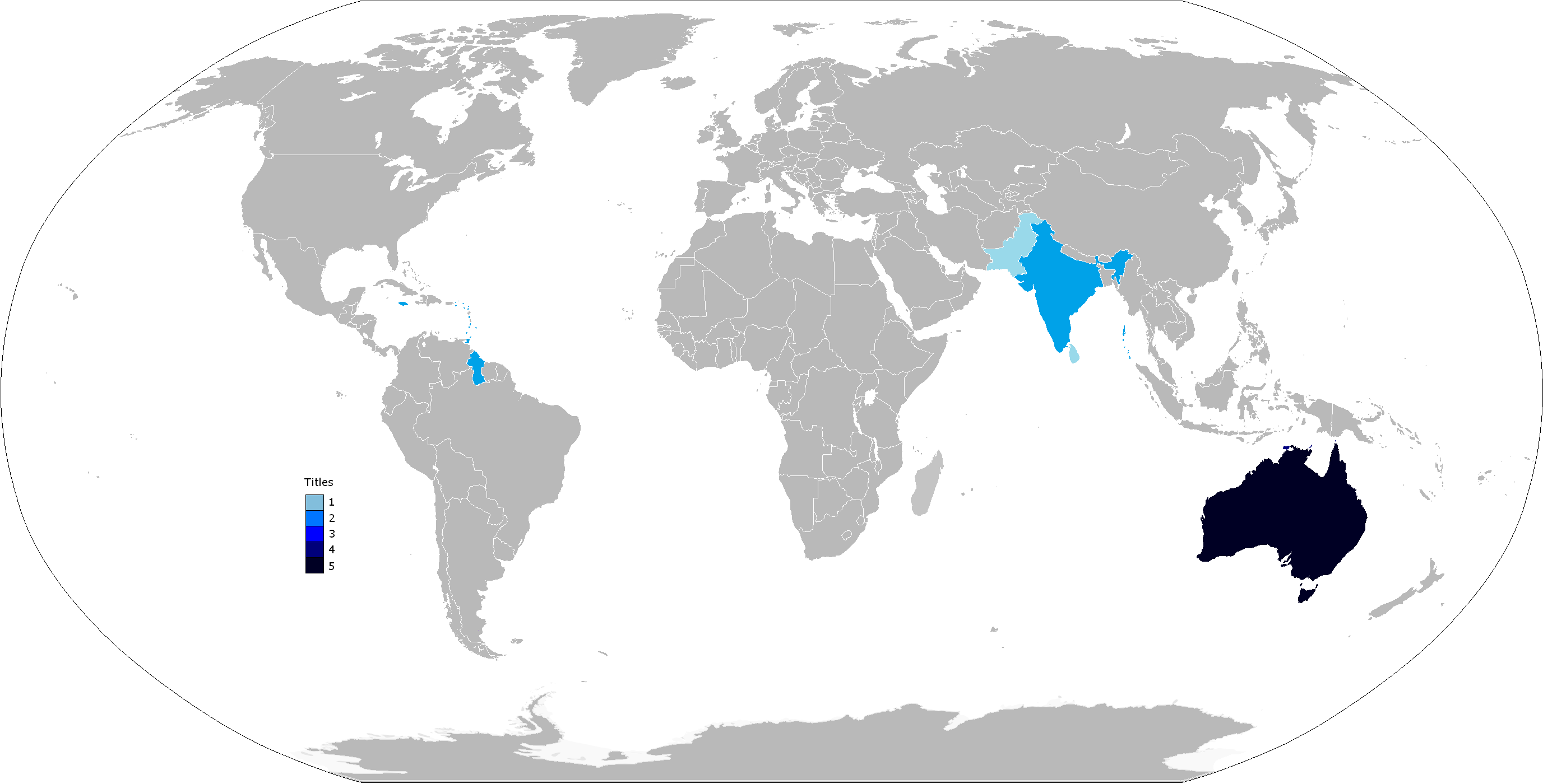 The number of times countries that have won the Cricket World Cup. Note that the West Indies Cricket Team consists of Antigua and Barbuda, Barbados, Dominica, Grenada, Guyana, Jamaica, Saint Kitts and Nevis, Saint Lucia, Saint Vincent and the Grenadines, Trinidad and Tobago, Anguilla, Montserrat, British Virgin Islands, U.S. Virgin Islands and Sint Maarten